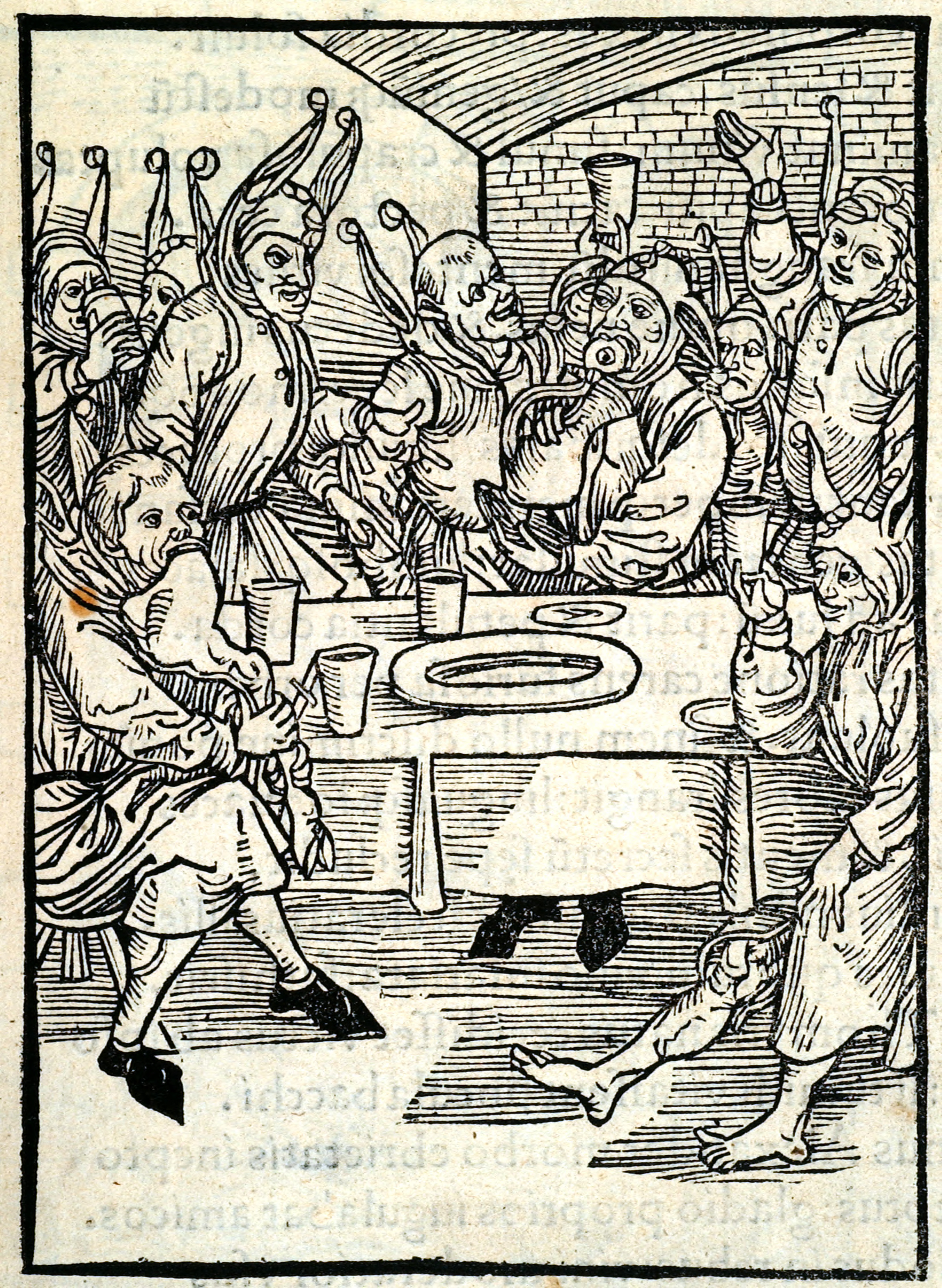 This woodcut is attributed to the artist Albrecht Dürer. It is an illustration from the book Stultifera navis (Ship of Fools) by Sebastian Brant, published by Johann Bergmann in Basel in 1498.